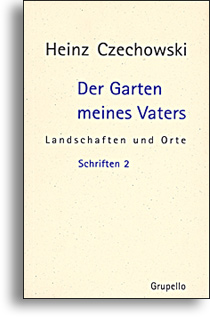 Book cover of Heinz Czechowski, "Der Garten meines Vaters" 2003